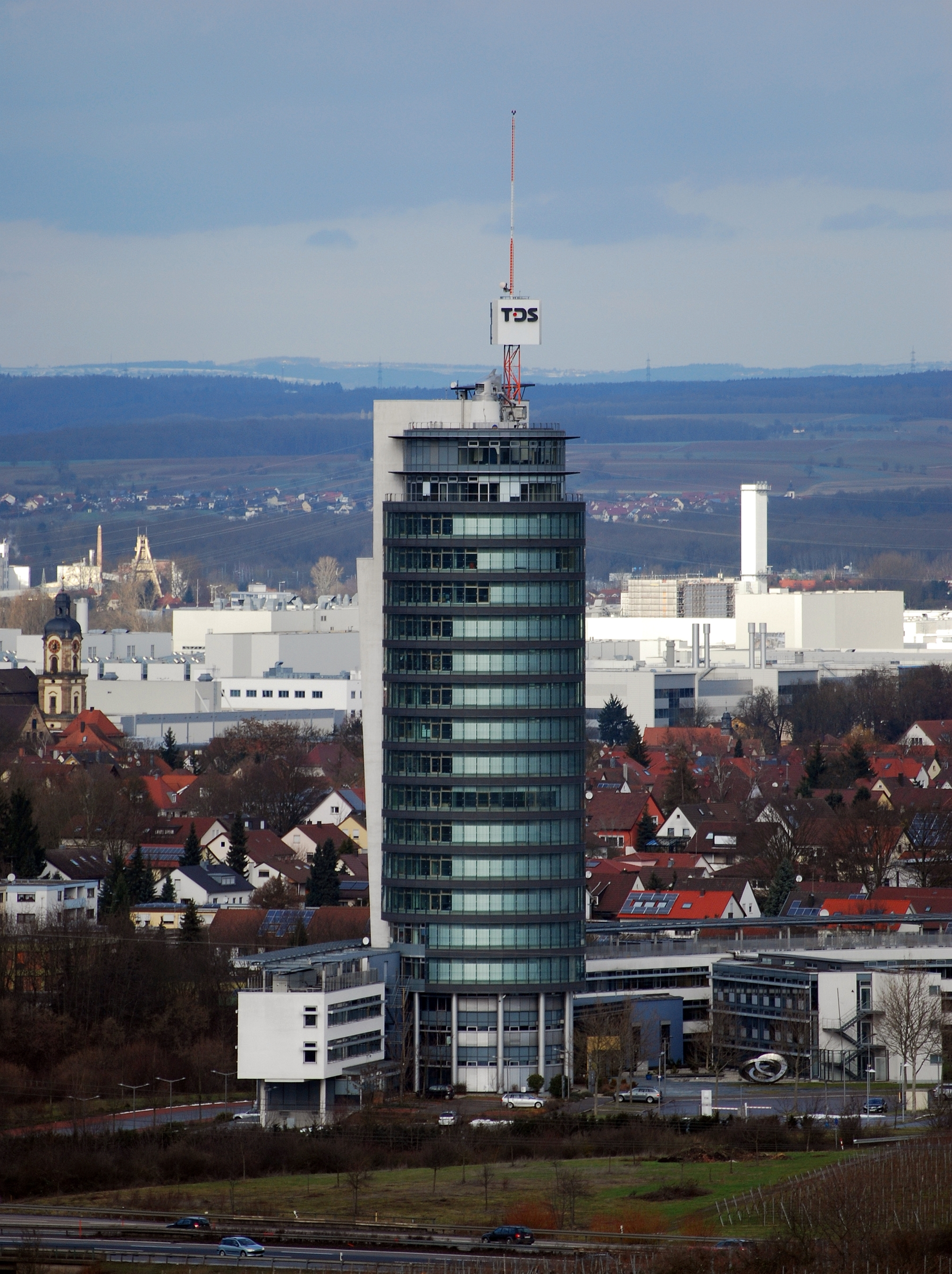 Neckarsulm TDS Office Tower, Baden-Württemberg.